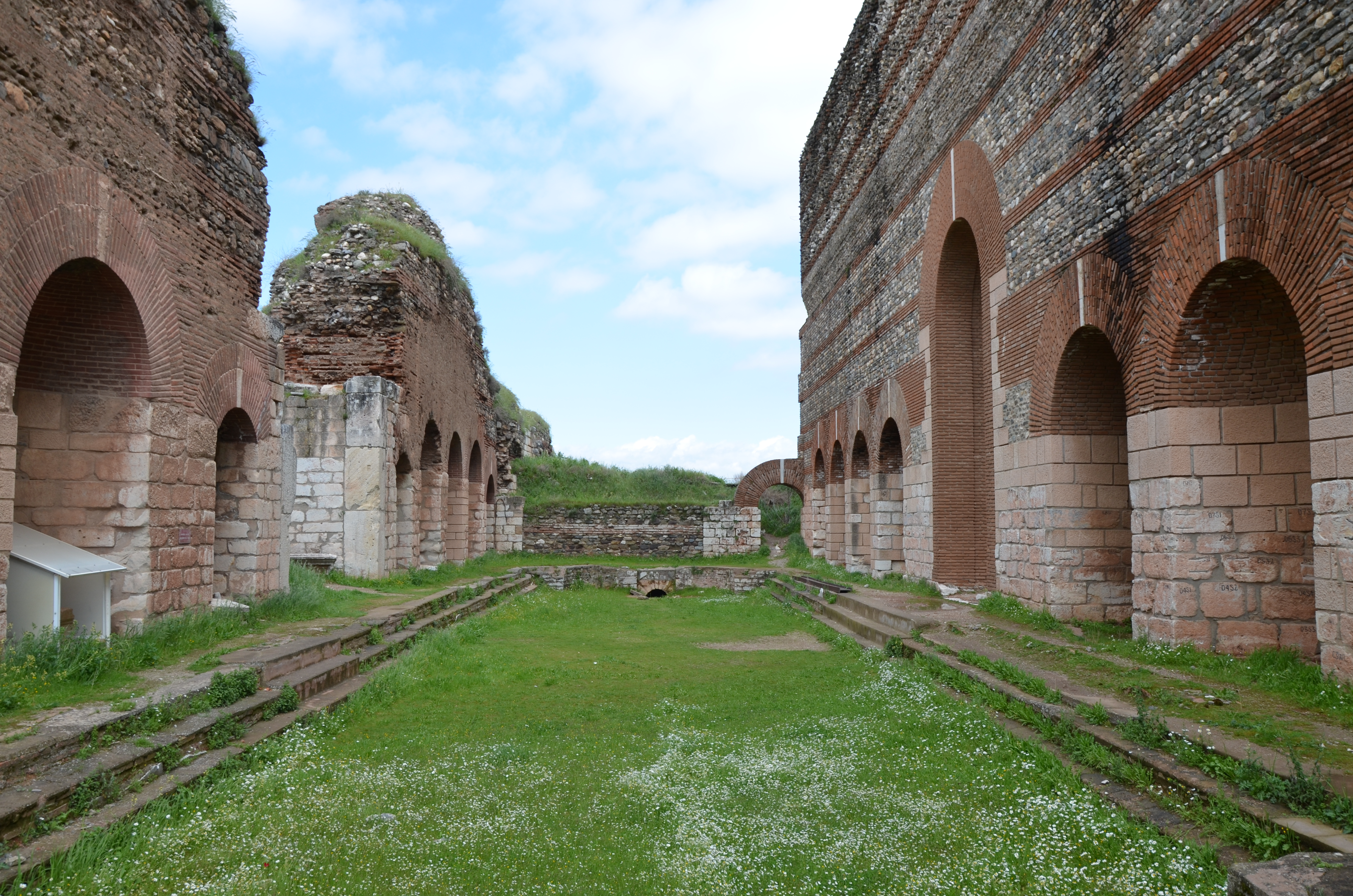 The Bath-Gymnasium complex at Sardis, late 2nd - early 3rd century AD, Sardis, Turkey